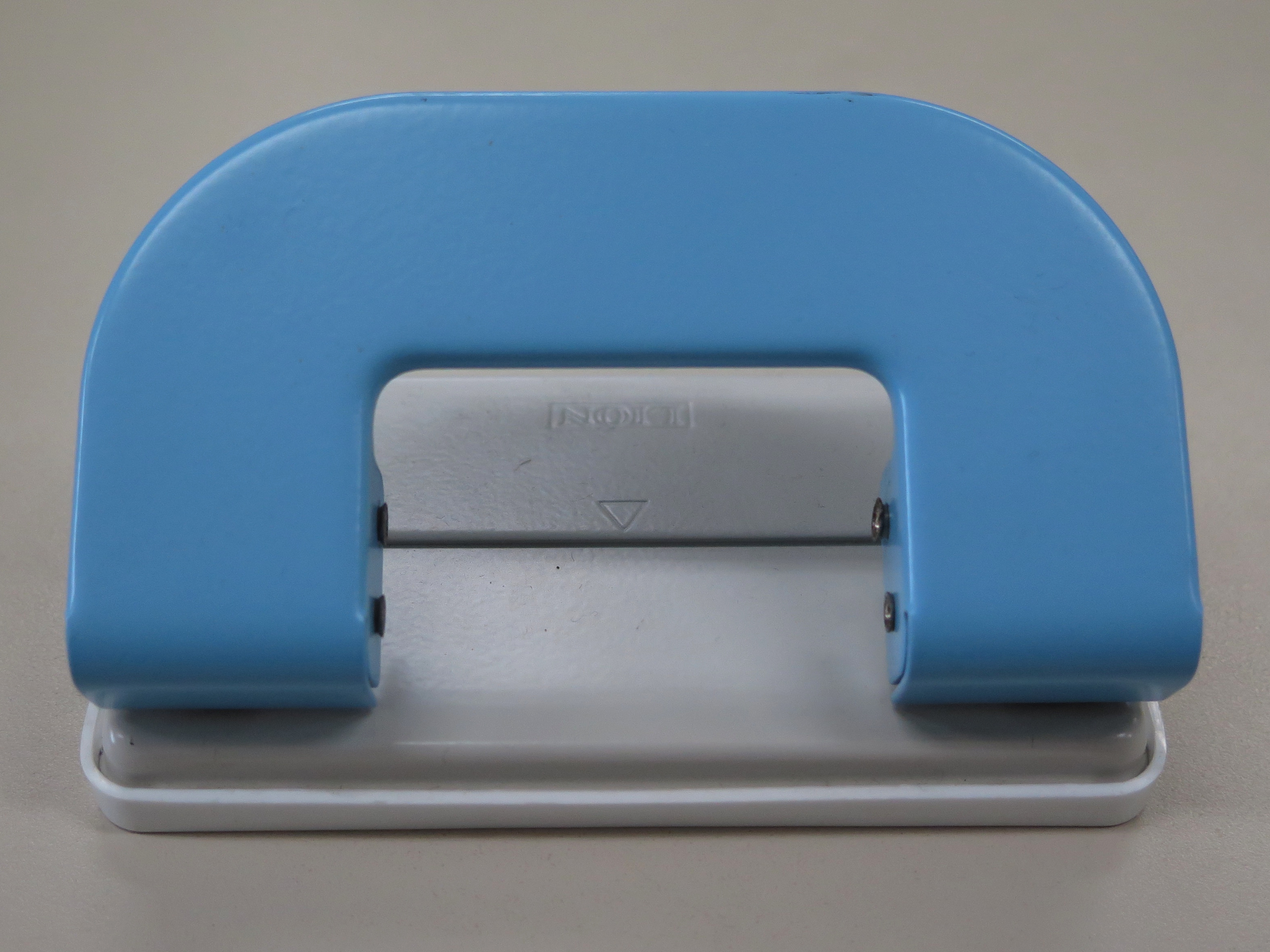 A 2-hole punch. The top is light blue in color.